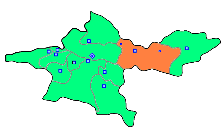 Damavand county of the Tehran Province in Iran. Taken from: and editec by Mani Parsa.